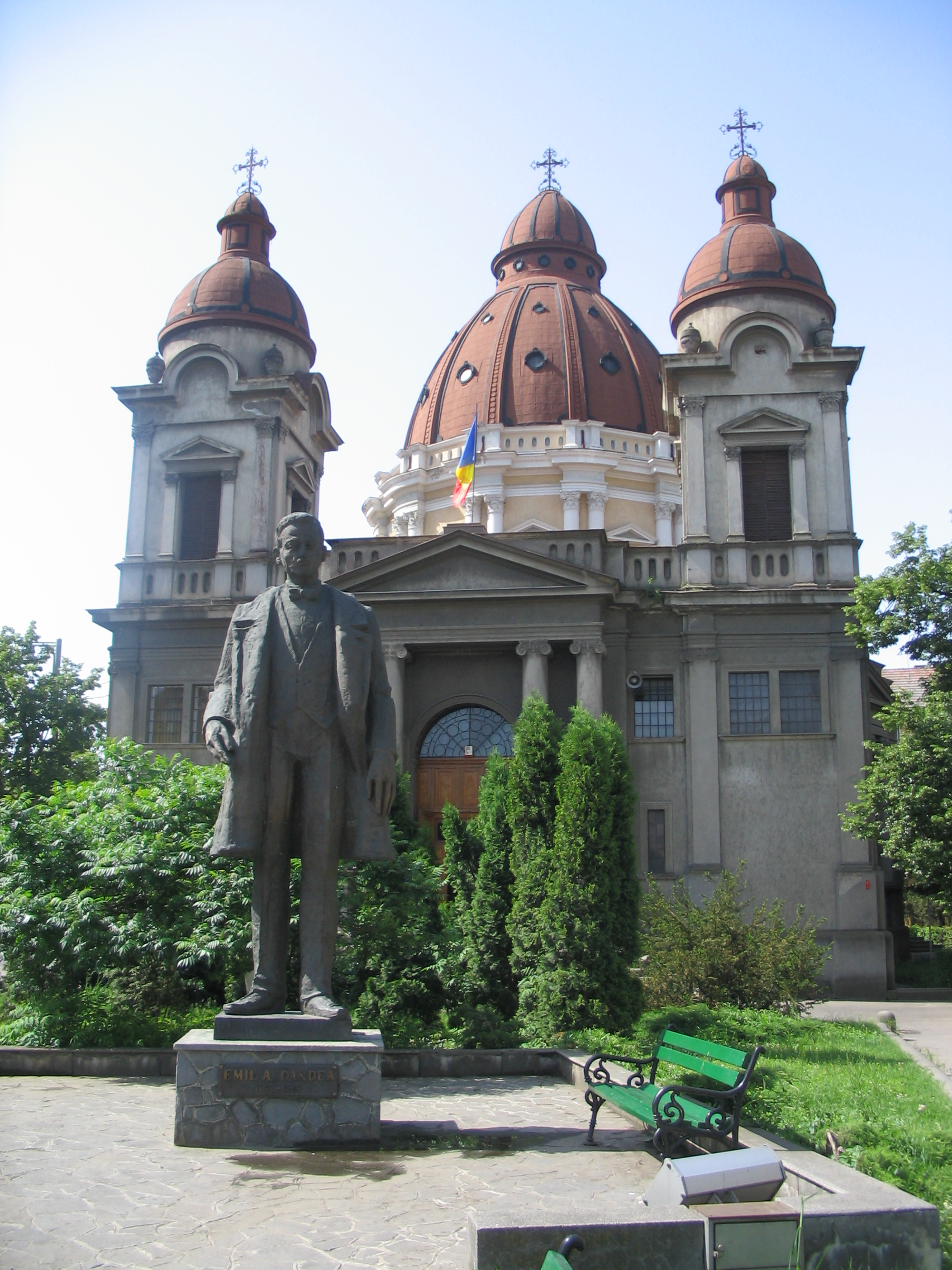 Catholic Cathedral in Târgu Mureş and Emil Dandea statue